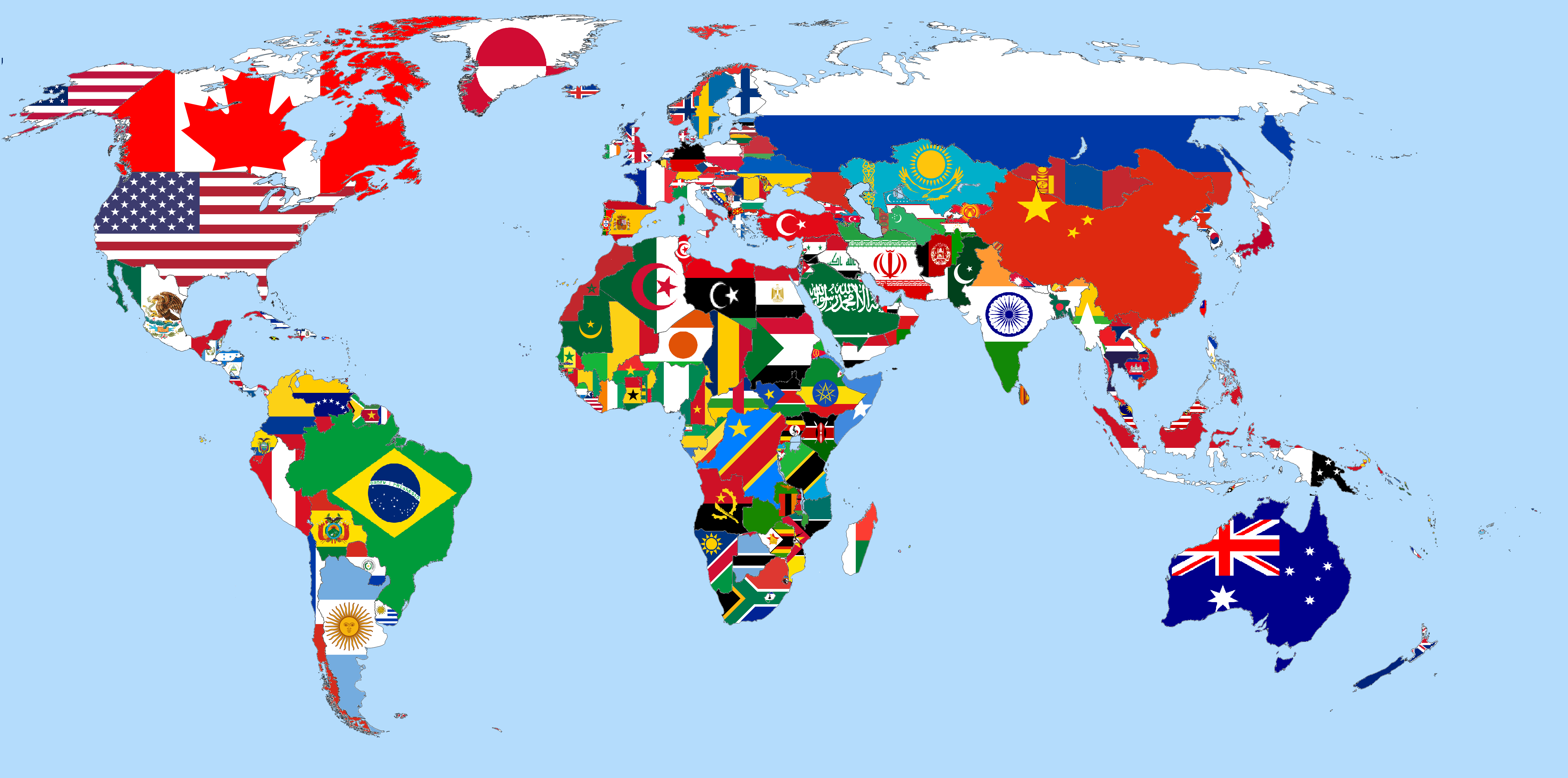 This is another updated version of my flag map. Yet again, I made a few things a little bit better.